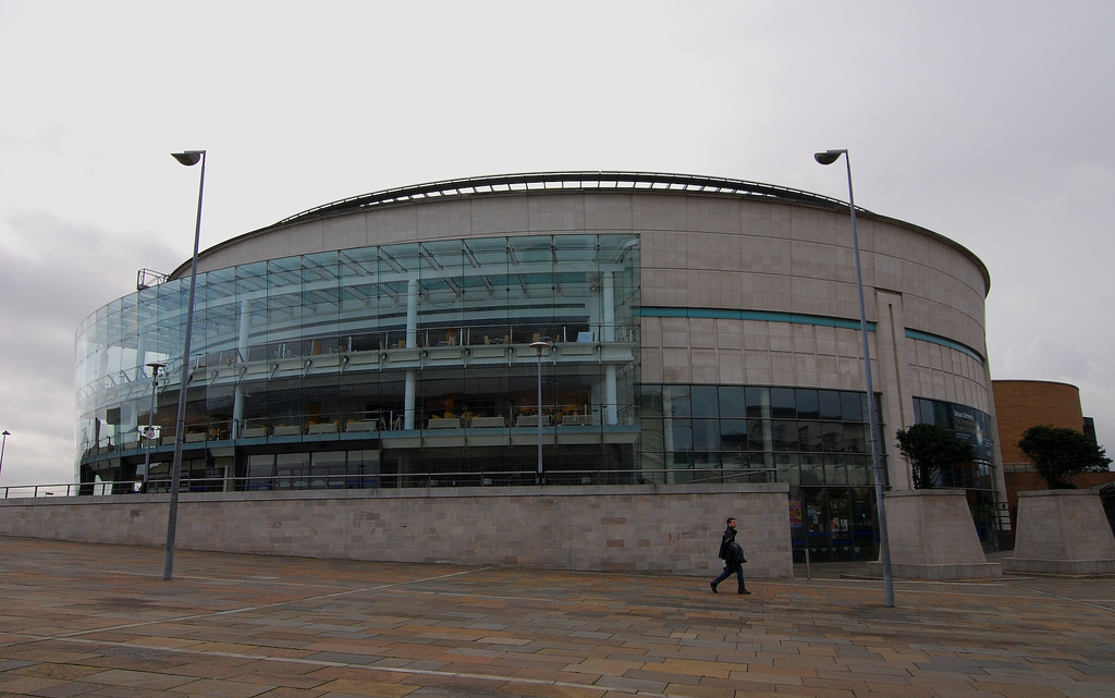 Waterfront Hall, Belfast